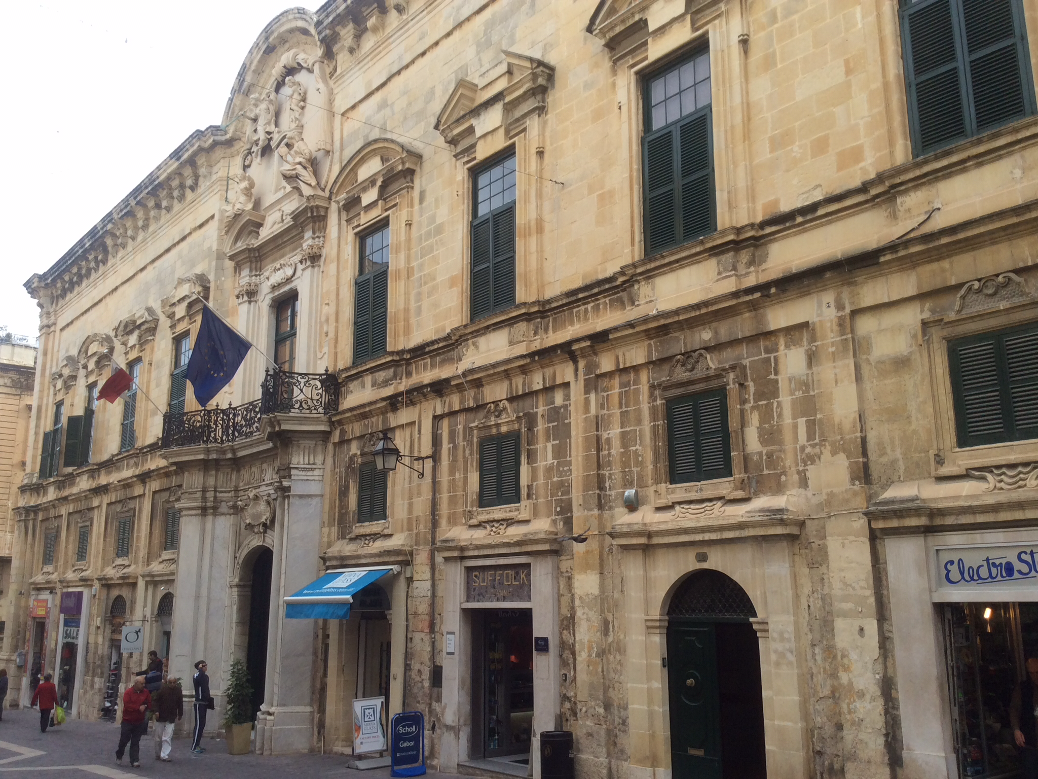 Façade of the Castellania in Valletta, Malta